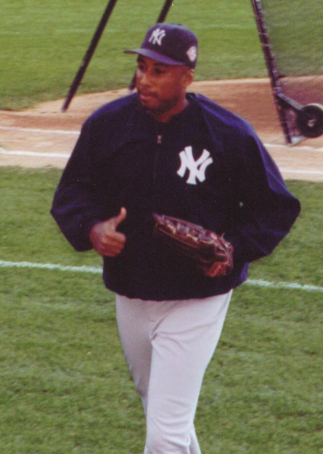 Bernie Williams of the New York Yankees during pre-game batting practice in 2004